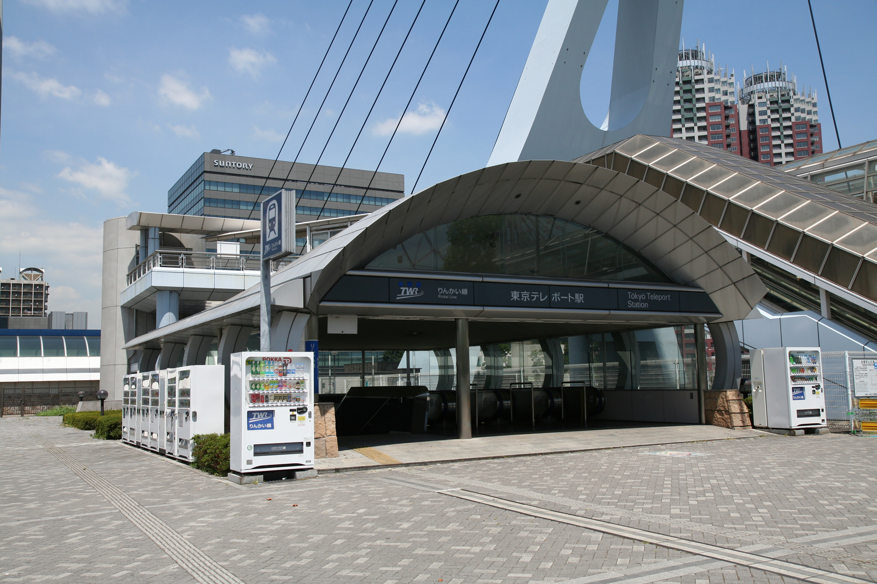 Tokyo Waterfront Area Rapid Transit Tokyo Teleport Station exit A in Koto, Tokyo.